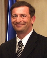 Karl Erjavec in 2006, Slovenia